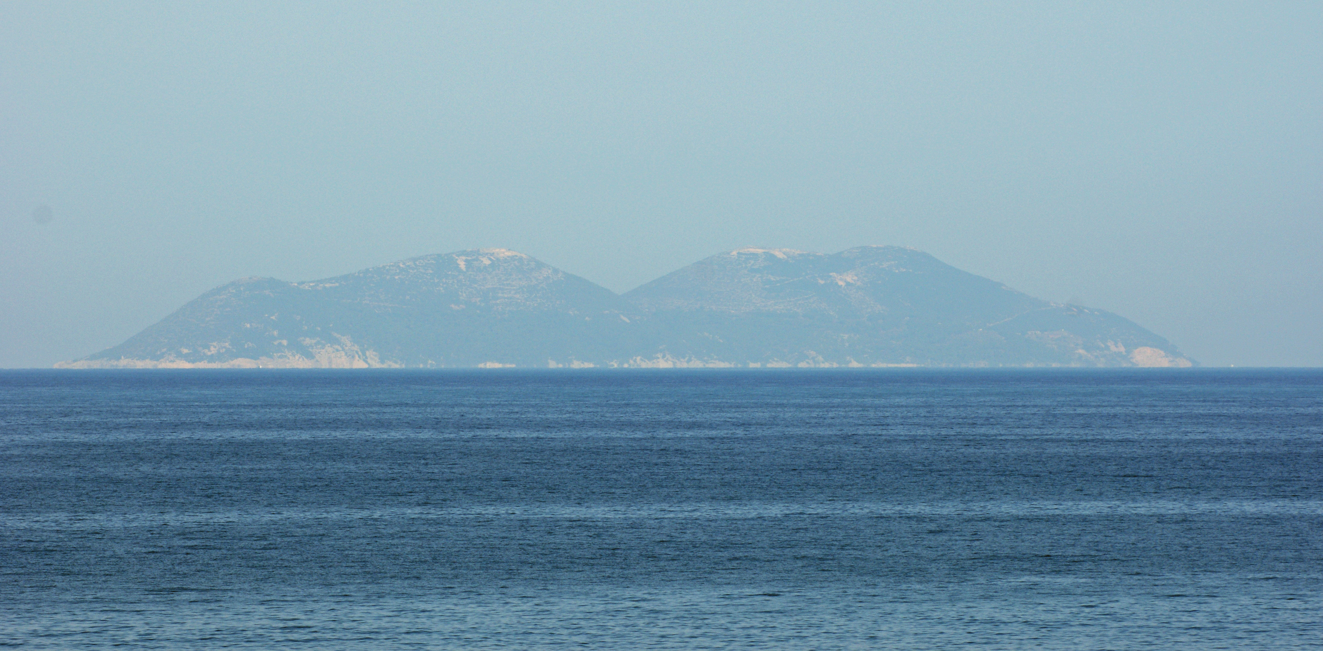 Island of Sazan - Albania